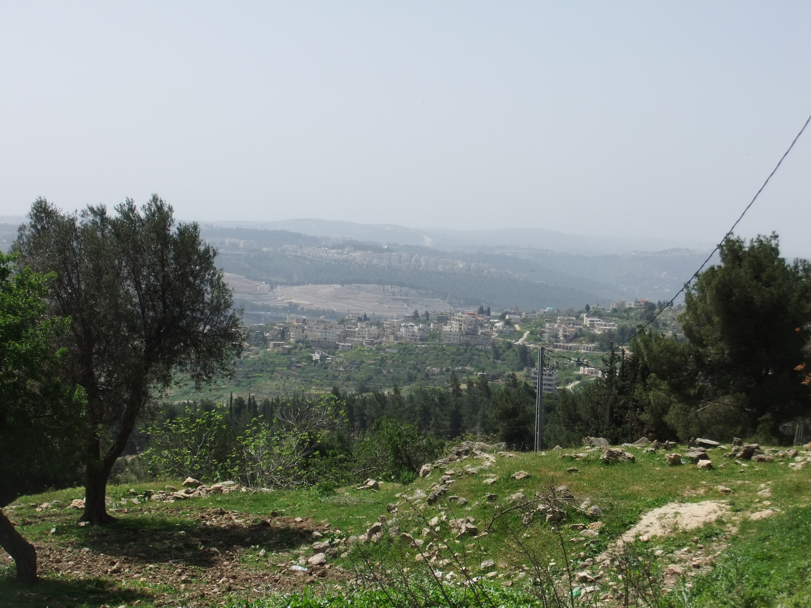 Beit Iksa from Tomb of Samuel